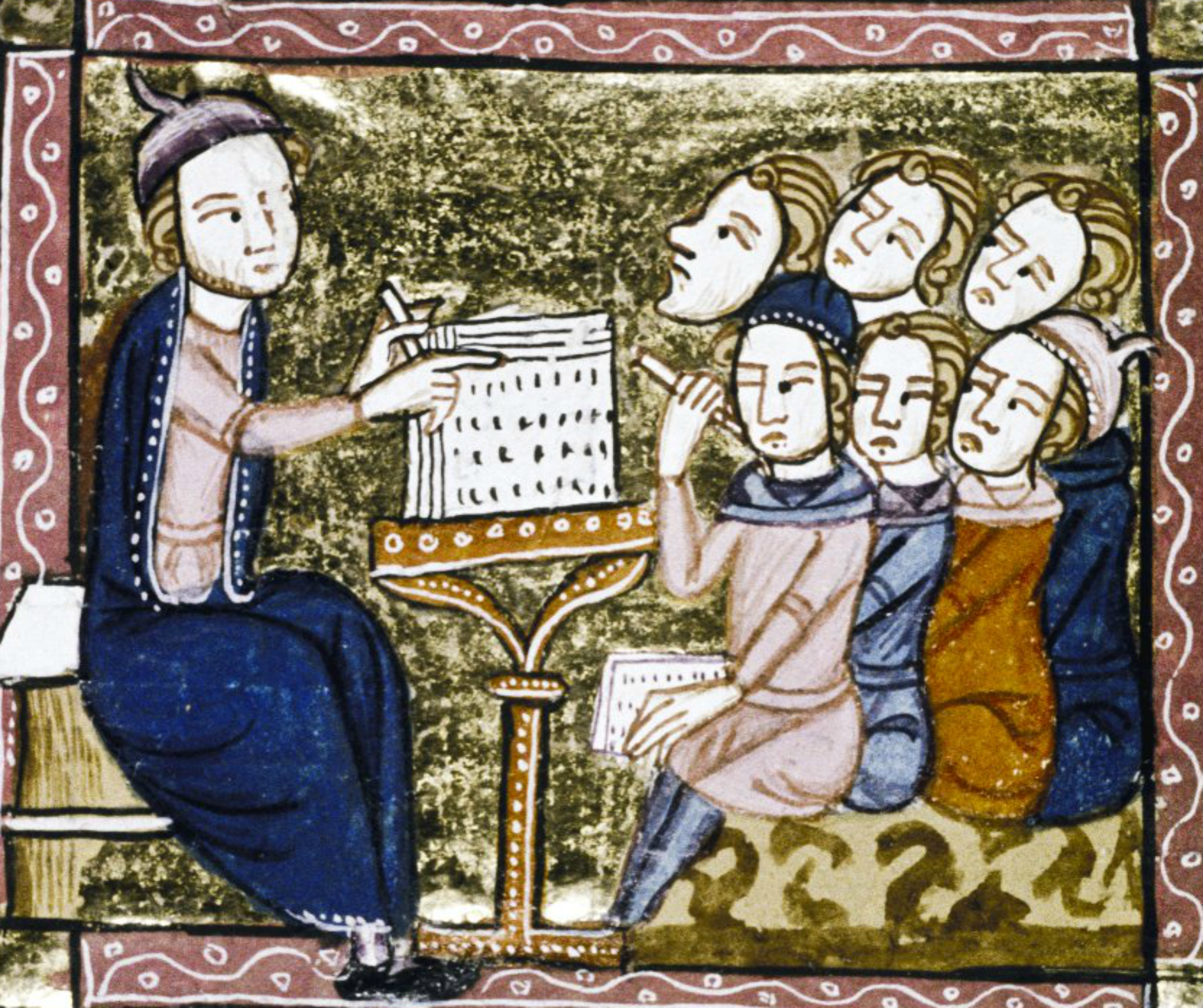 William of Nottingham lecturing to a group of students at Oxford or Cambridge.